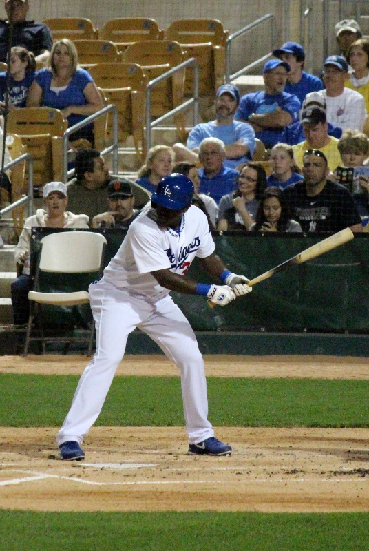 Elián in spring training